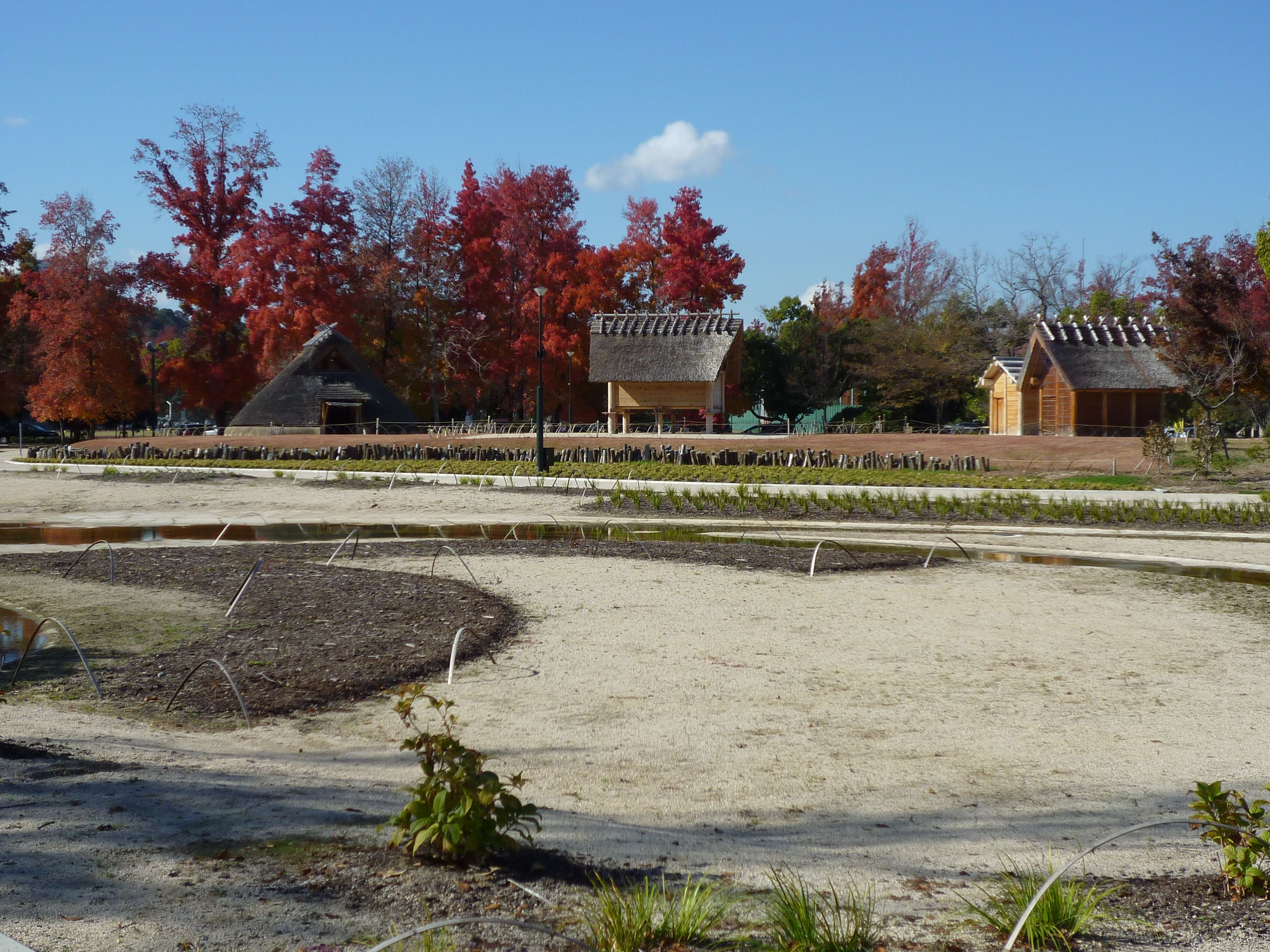 Tsushima Site (Kita-ku, Okayama City, Okayama Pref, JPN) The site is designated as National Historic Site of Japan. A great deal of archaeological remains belonging to the Yayoi period have been excavated.